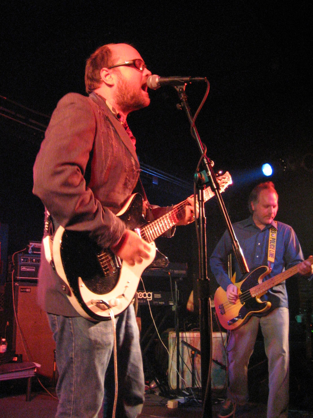 Robert Schneider performing with The Apples in Stereo at the Black Cat